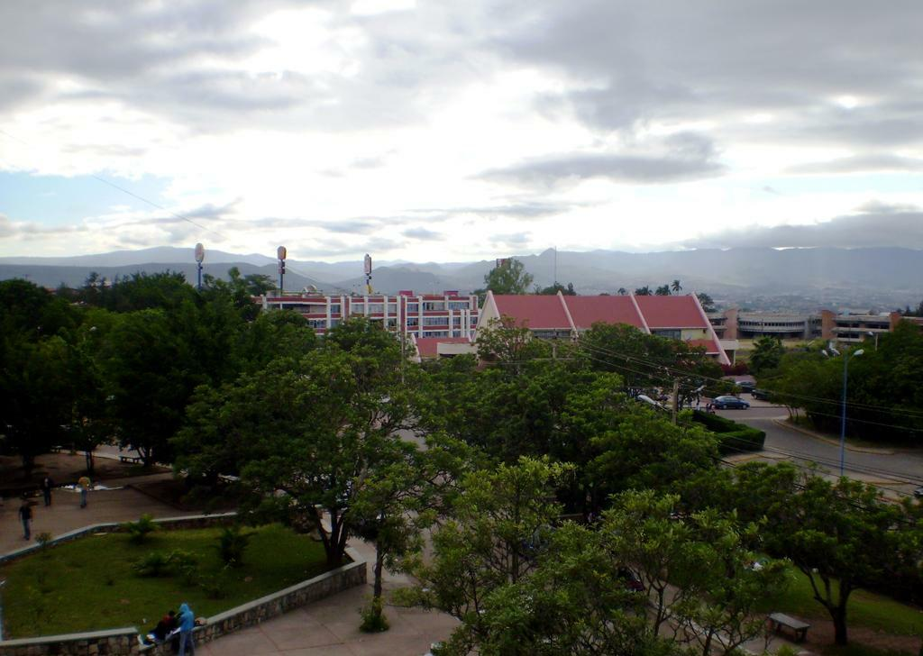 The National Autonomous University of Honduras (UNAH) in Tegucigalpa.